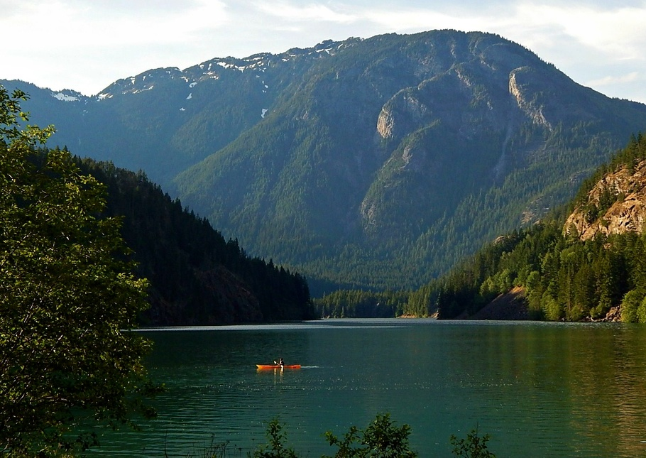 Sourdough Mountain from Thunder Arm of Diablo Lake, North Cascades of Washington state.